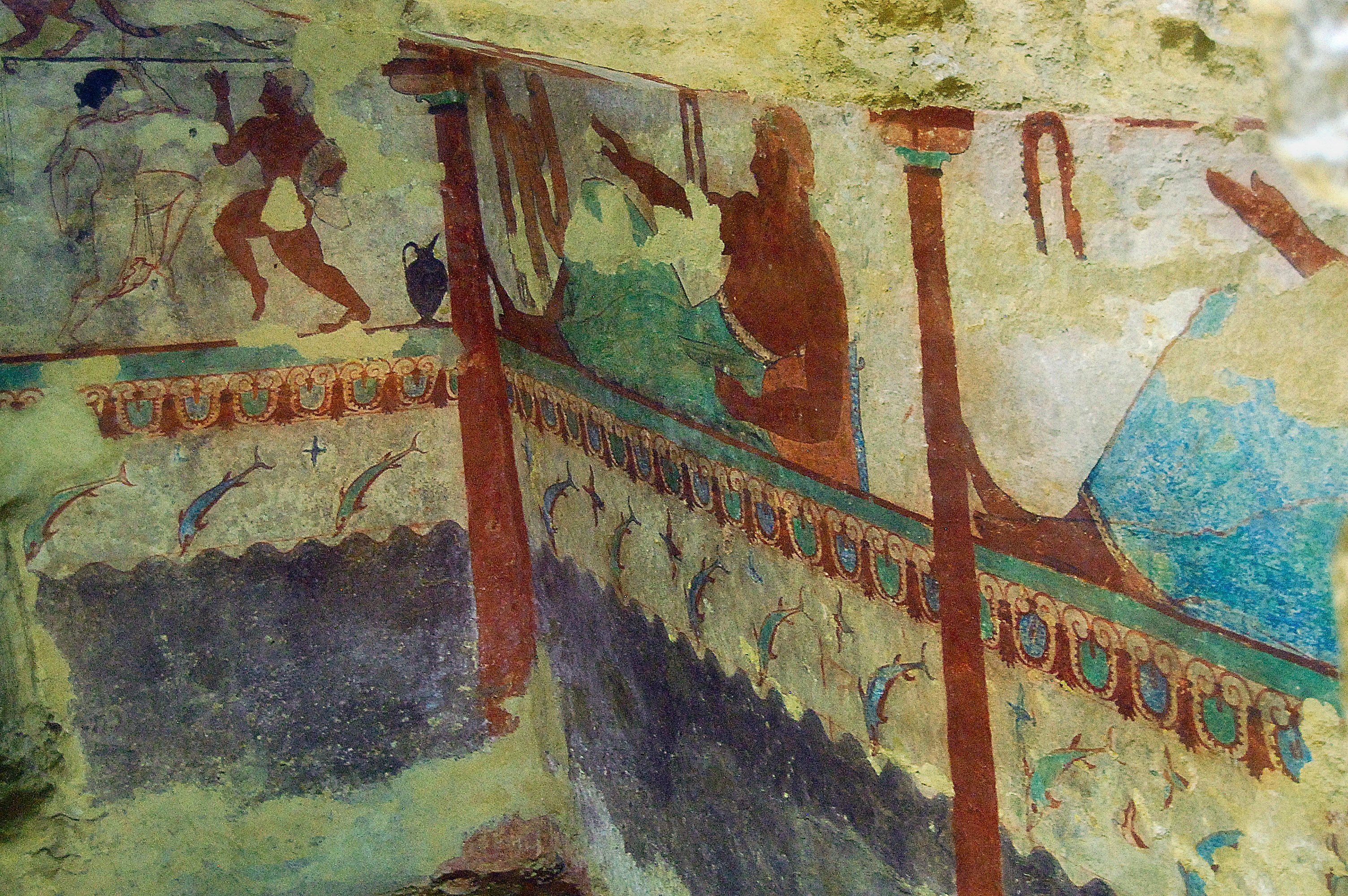 Parete destra della Tomba delle leonesse, con i banchettanti sdraiati sotto un porticato, e i delfini in tuffo sopra le onde.